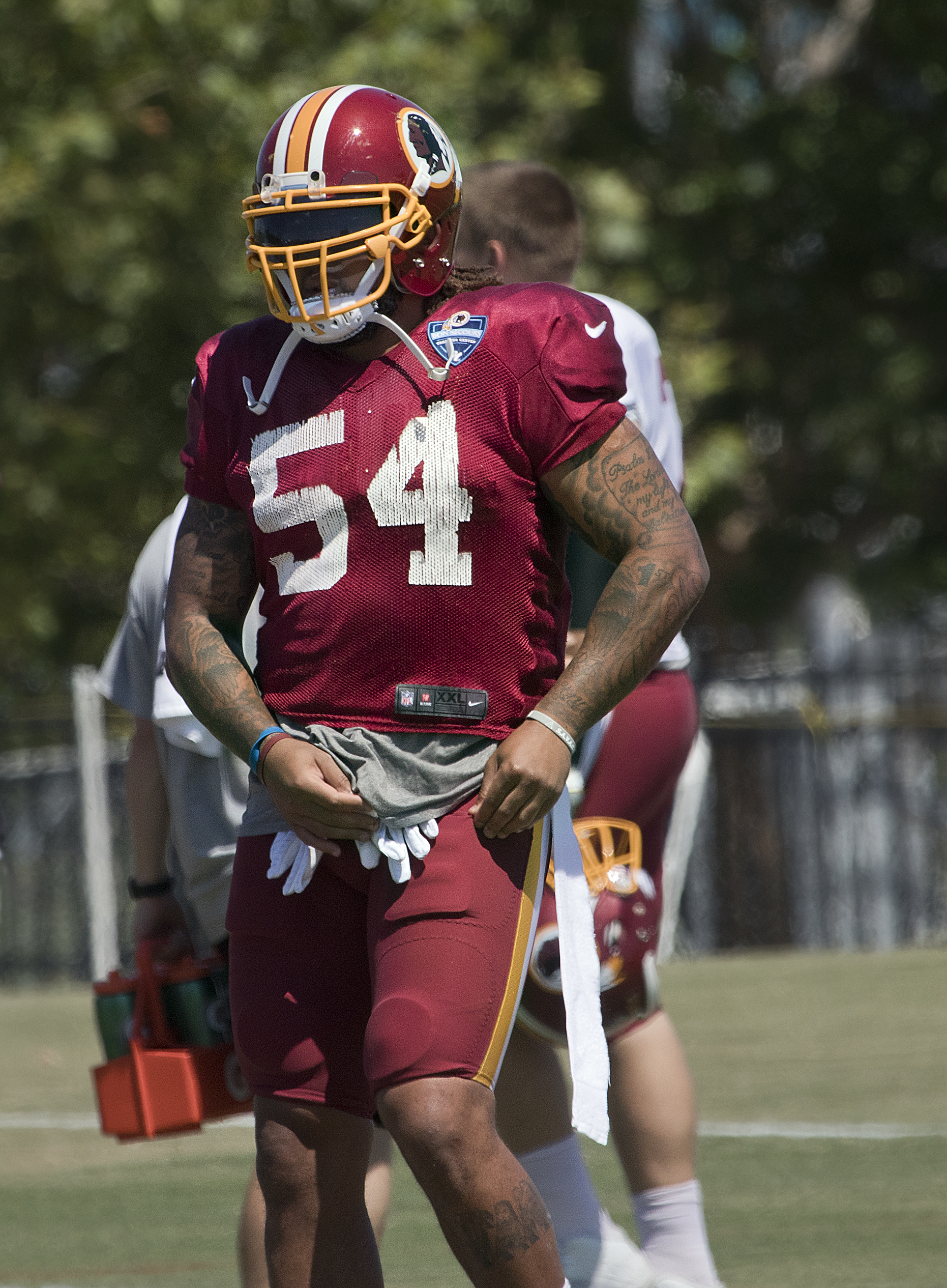 Washington Redskins linebacker, Mason Foster, at training camp on July 31, 2017.